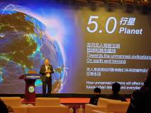 Hirvinen giving speech on Planet 5.0 at Langfang.